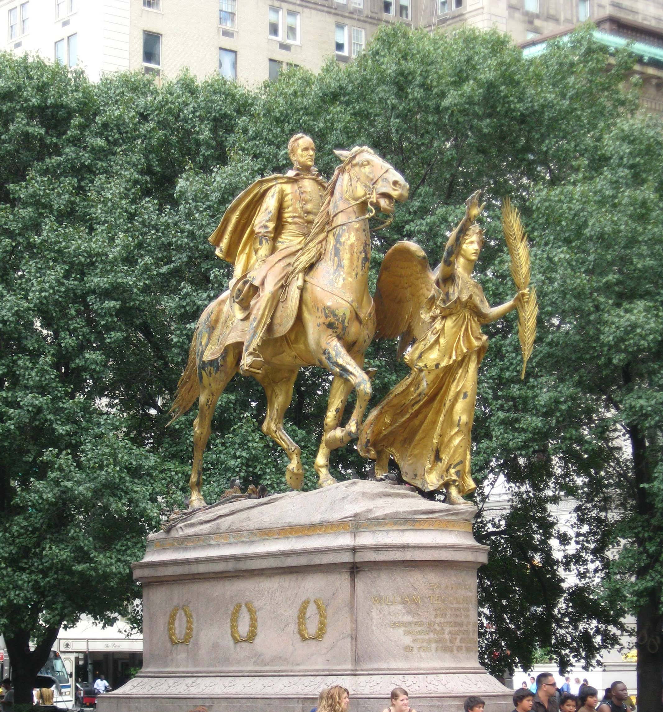 Looking east at William T. Sherman statue in Manhattan's Grand Army Plaza, across from Plaza Hotel on a partly cloudy August afternoon. See also File:Sherman statue snow jeh.JPG.